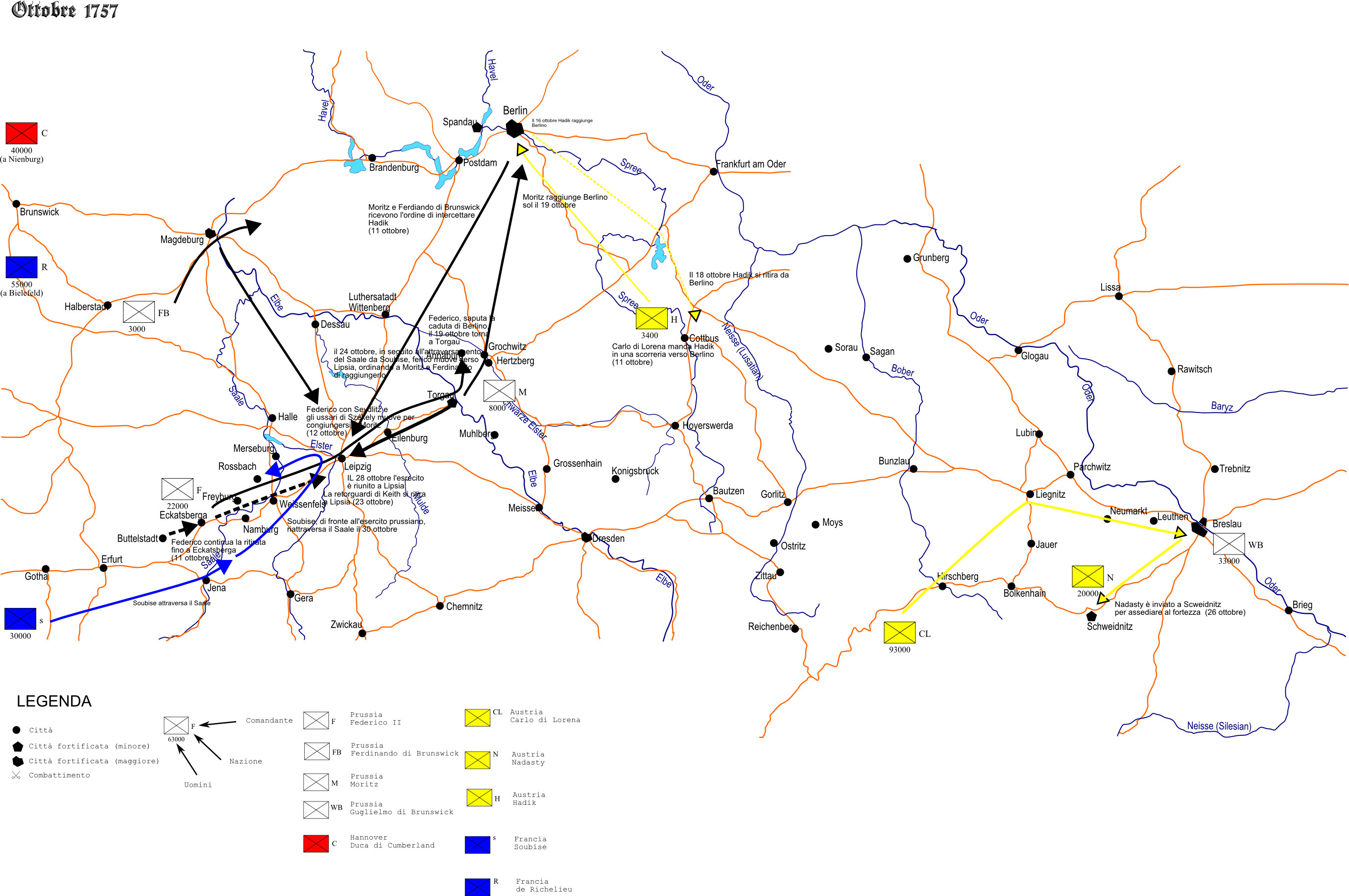 Campagin of 1757 in the Seven Years War, October operations